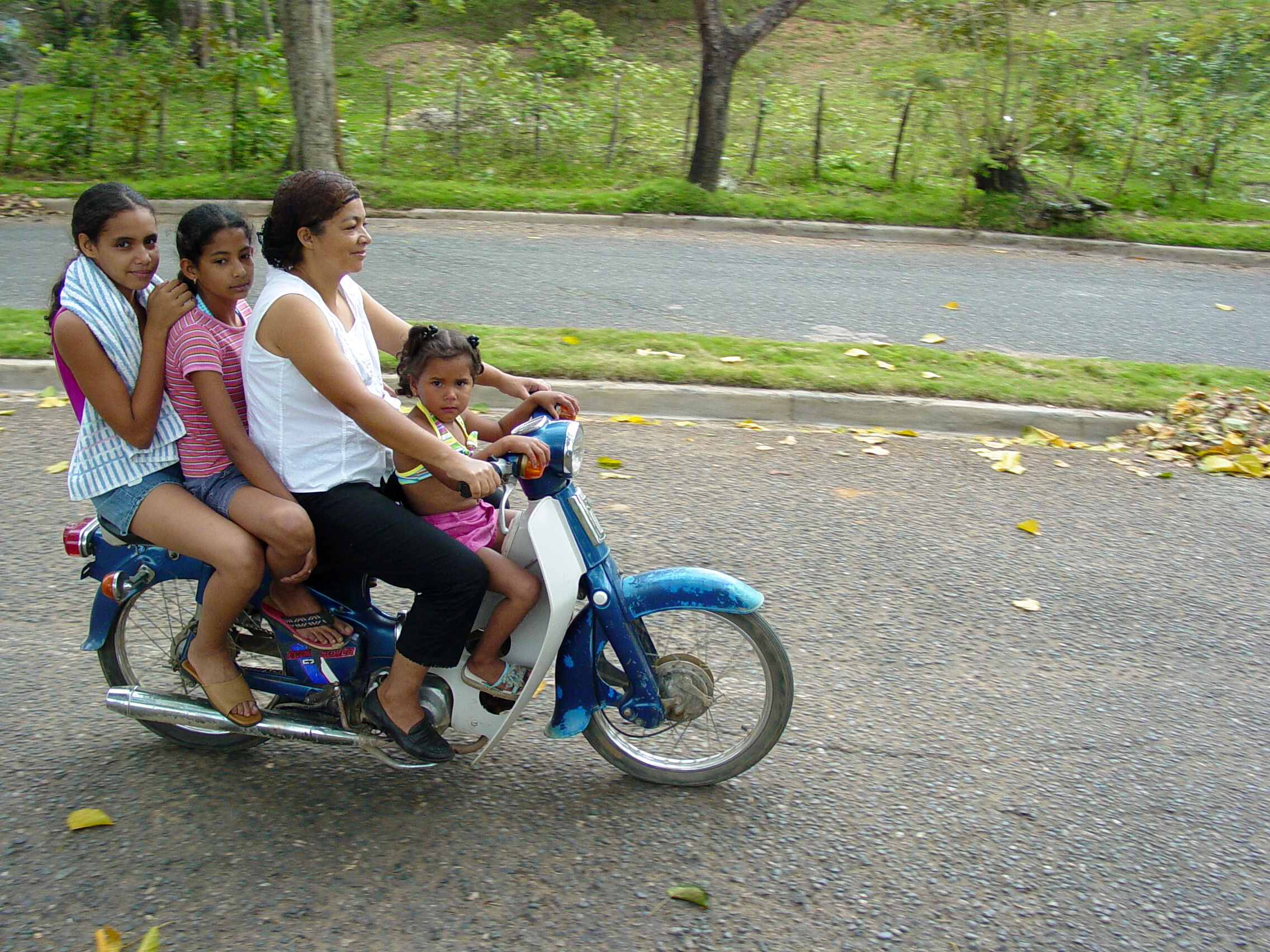 Four Females on One Bike - Jarabacoa - Dominican Republic